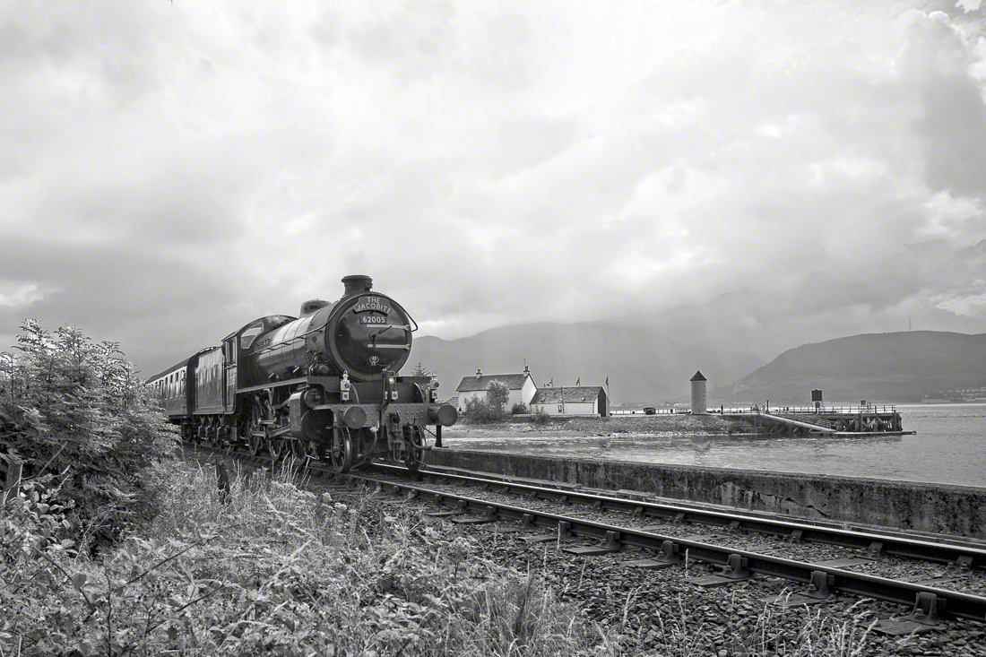 The Jacobite, 62005 Lord of the Isles, passes the Caledonian Canal sea lock at Corpach